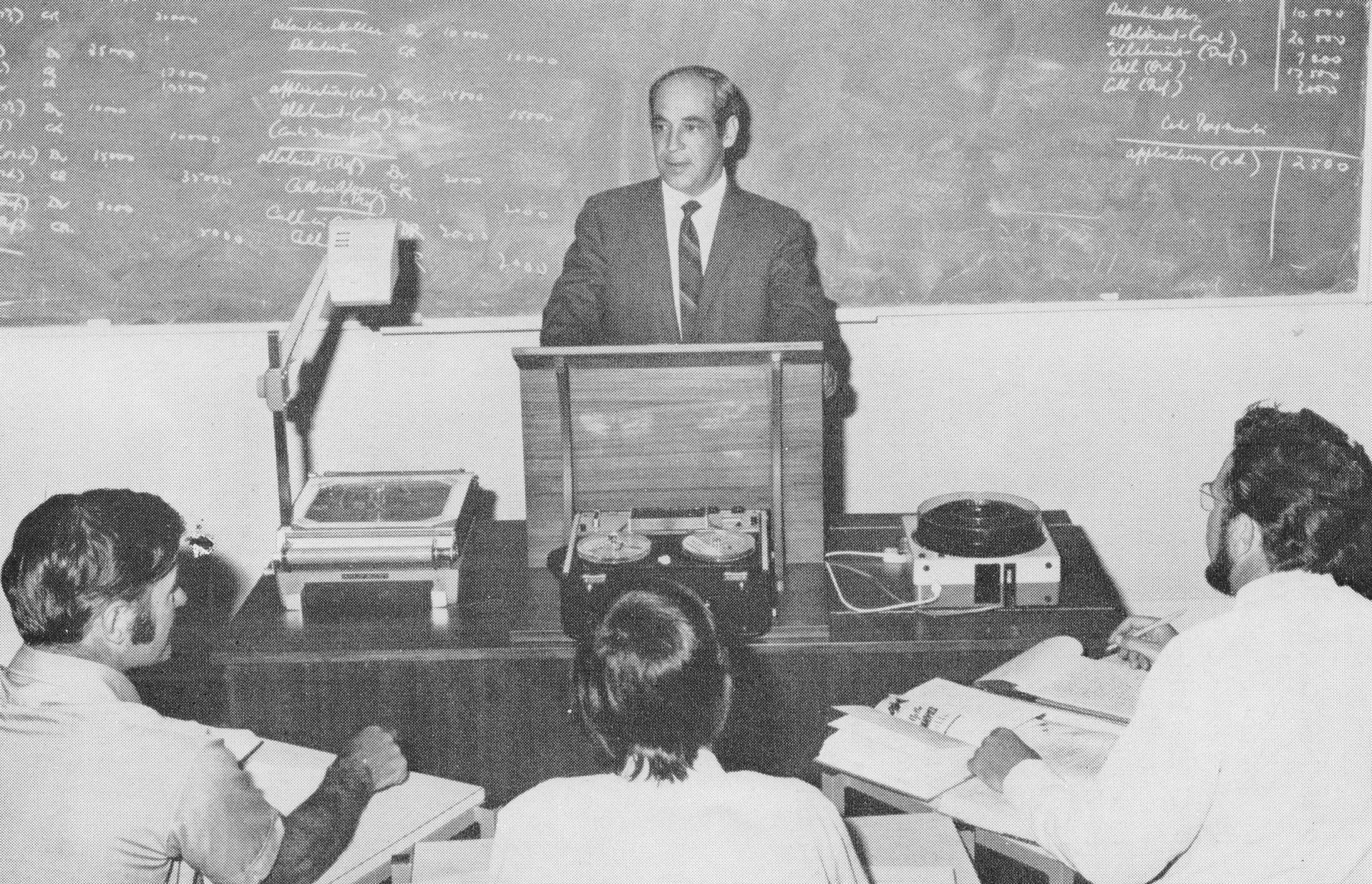 Gawler Adult Education Centre1972: Lecturer Keith Jacob with latest communication items of overhead projector, tape recorder and carousel slide projector.